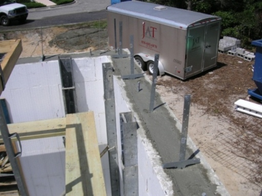 A close-up of the ICF walls after the concrete has been poured inside them. The braces that appear on top will be attached to the roof trusses.